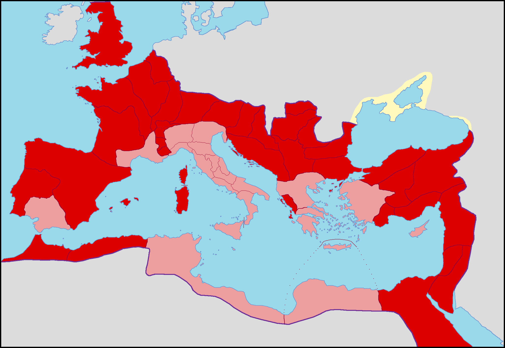 Map of the Roman Empire with differents colours for senatorial (pink) and imperial (red) provinces